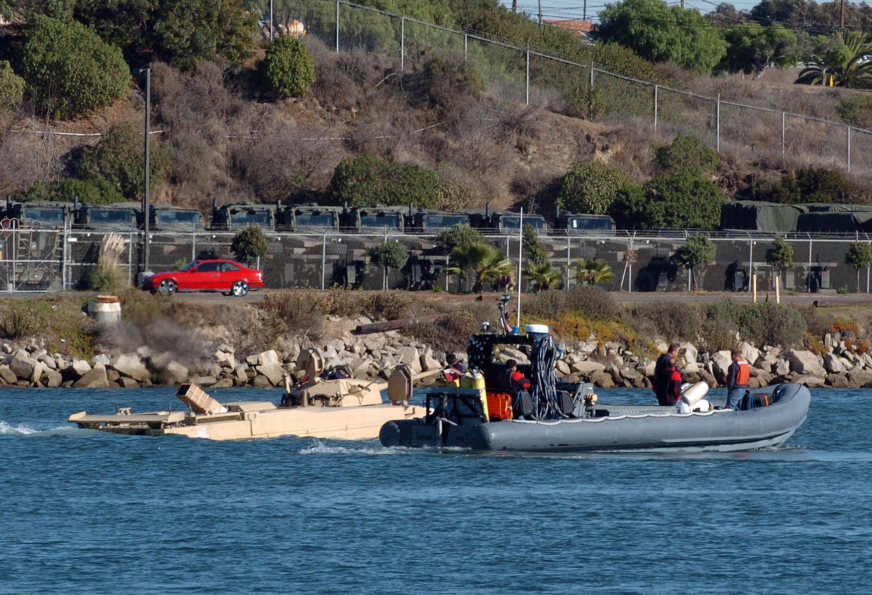 Camp Pendleton, Calif. (Dec. 5, 2005) – The U.S. Marine Corps’ new Expeditionary Fighting Vehicle (EFV) Advanced Amphibious Assault Vehicle (AAAV) is tested in the landing area of Del Mar Boat Base, Camp Pendleton, Calif. The AAAV will be capable of transporting 18 Marines and a crew of three over water at speeds of 29 miles an hour, using a hull propelled by two water jets. On land, the AAAV will achieve speeds of 45 miles an hour. In addition to its high land speed, the AAAV has sufficient ballistic protection to defeat rounds up to 14.5mm or fragments from 155mm artillery shells. It also has improved mine-blast protection and a nuclear, chemical and biological defense system. The new vehicle is planned to replace the current amphibious assault vehicle in use by the Marine Corps. U.S. Navy photo by Journalist 2nd Class Zack Baddorf (RELEASED)